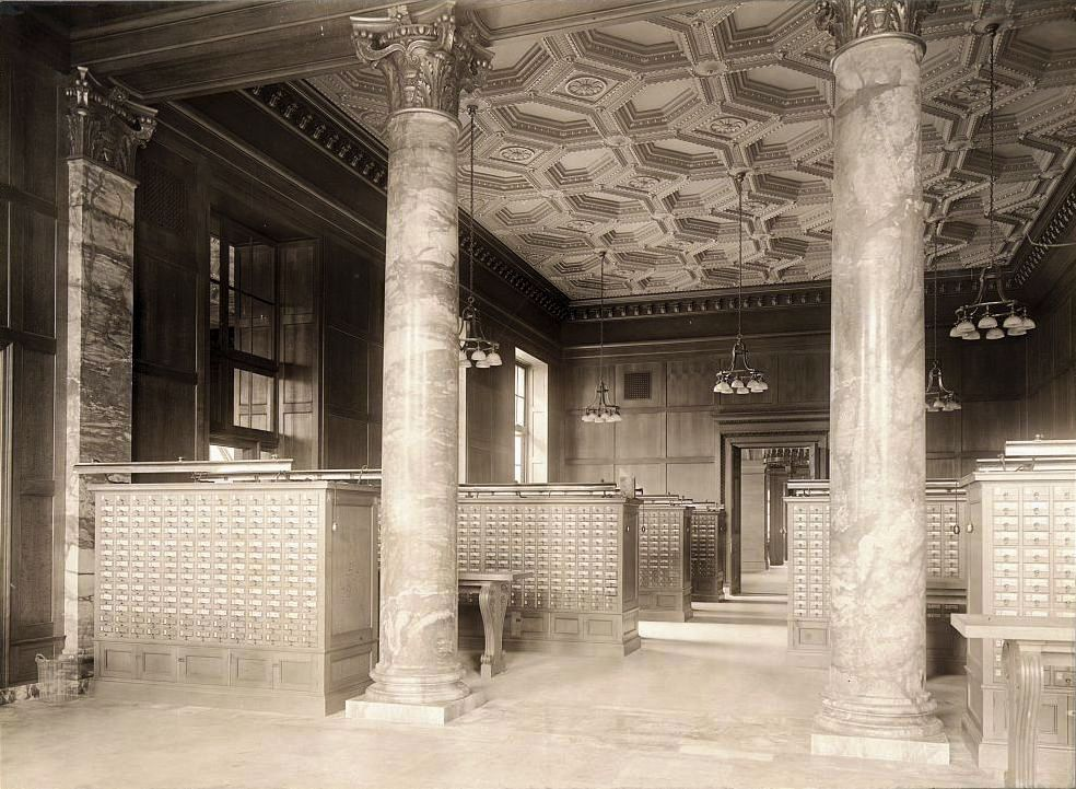 Card catalogs in the Harry Elkins Widener Memorial Library, Harvard University. Source describes this as the "Book Delivery Room", but this appears to be an error.